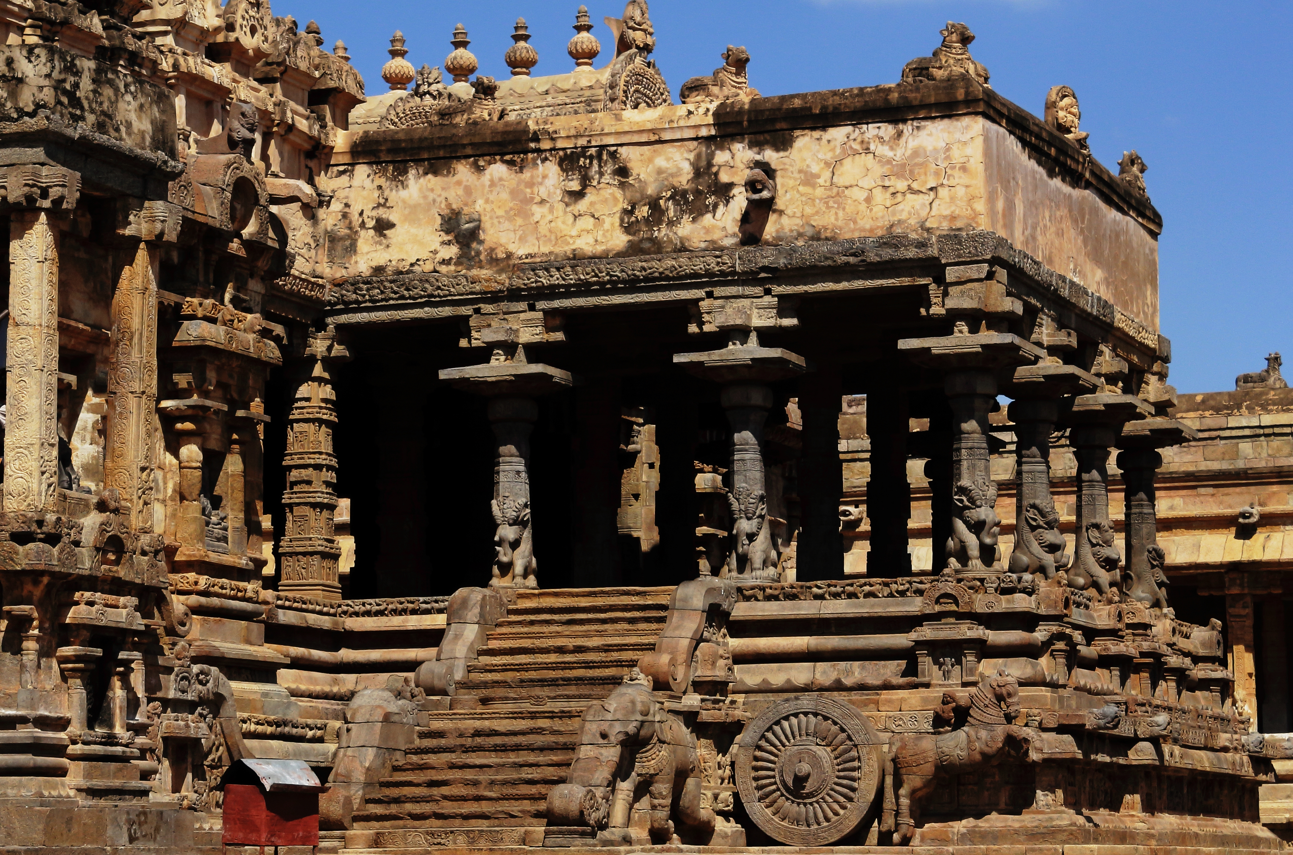 The temple is shaped like a chariot, drawn by horses and elephants and supported by a hundred monolith pillars carved exquisitely. The chariot and its wheel are so finely sculpted with minute details.